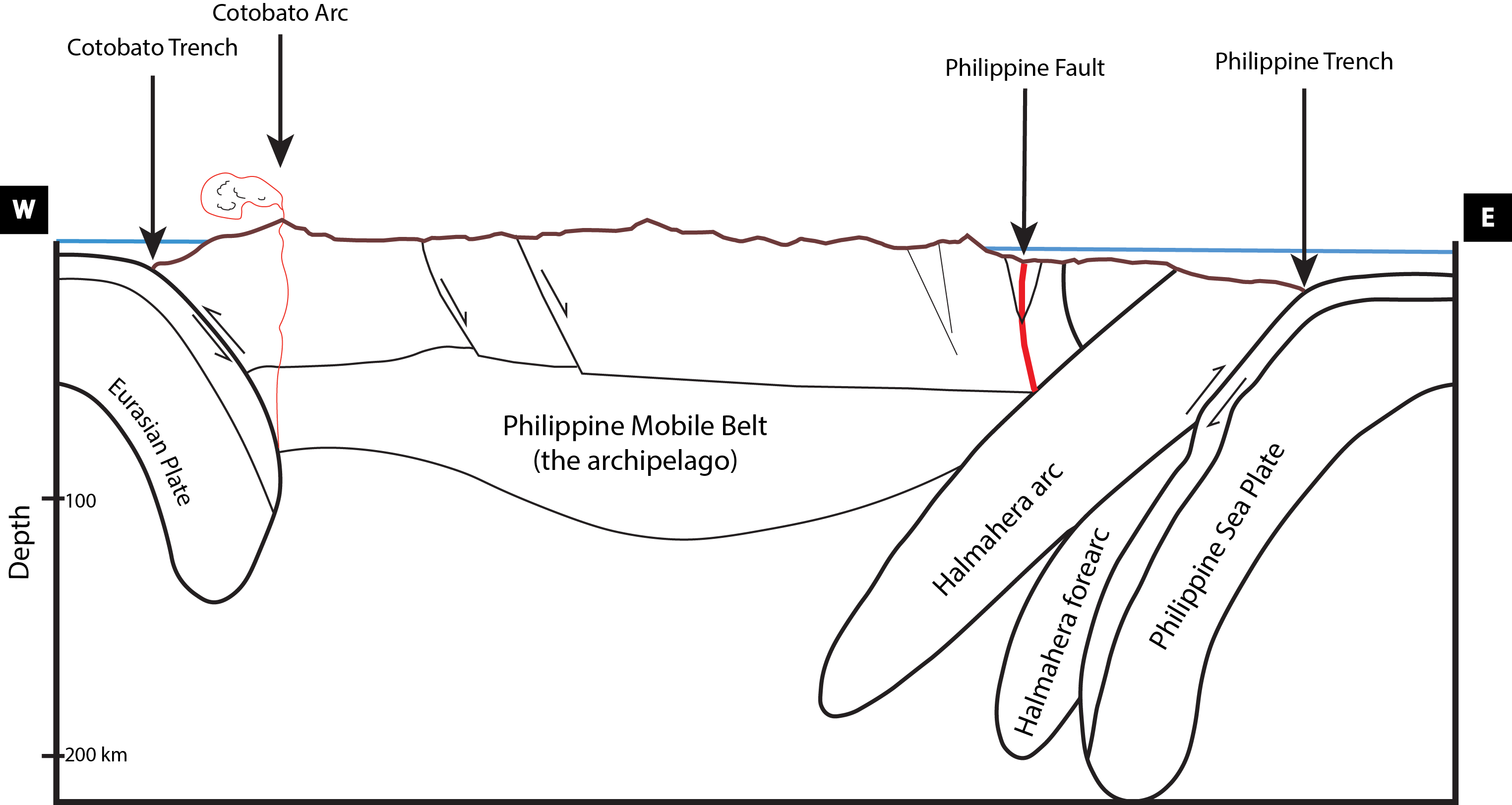 Cross-section of the subduction system in the Philippines